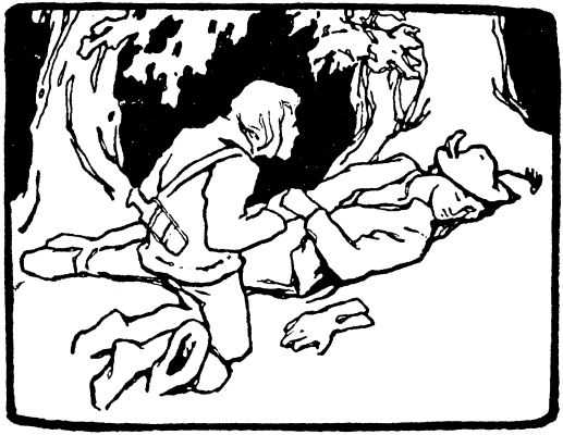 Illustration by Otto Ubbelohde to the fairy tale The Thief and His Master